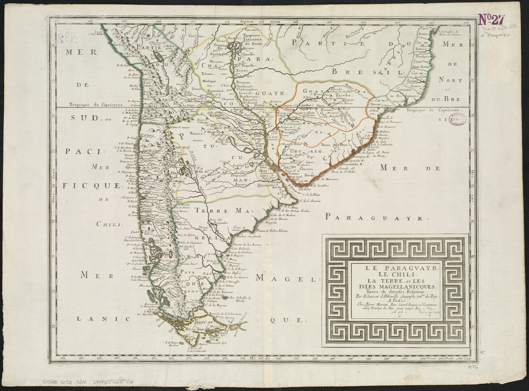 Le_Paraguayr,_Le_Chili,_La_Terre,_et_les_Isles_Magellanicques this map at . Author: Sanson, Nicolas Publisher: Mariette, Pierre Date: 1656 Location: Argentina, Chile, Paraguay, South America, Uruguay Dimension 39x48cm Scale: 1:14,000,000 Call Number: G5200 1656 .S36